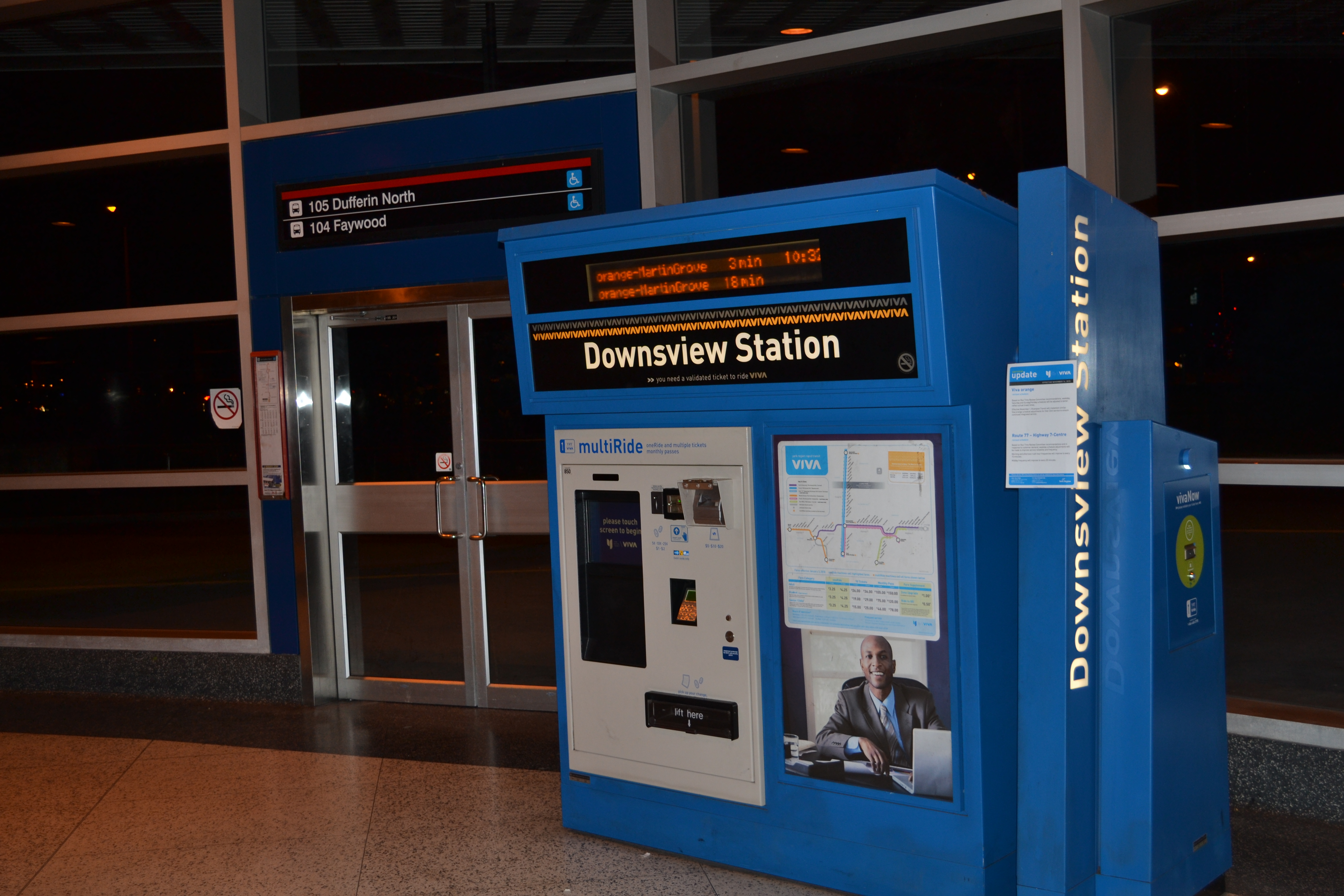 VIVA stop inside Downsview TTC station.